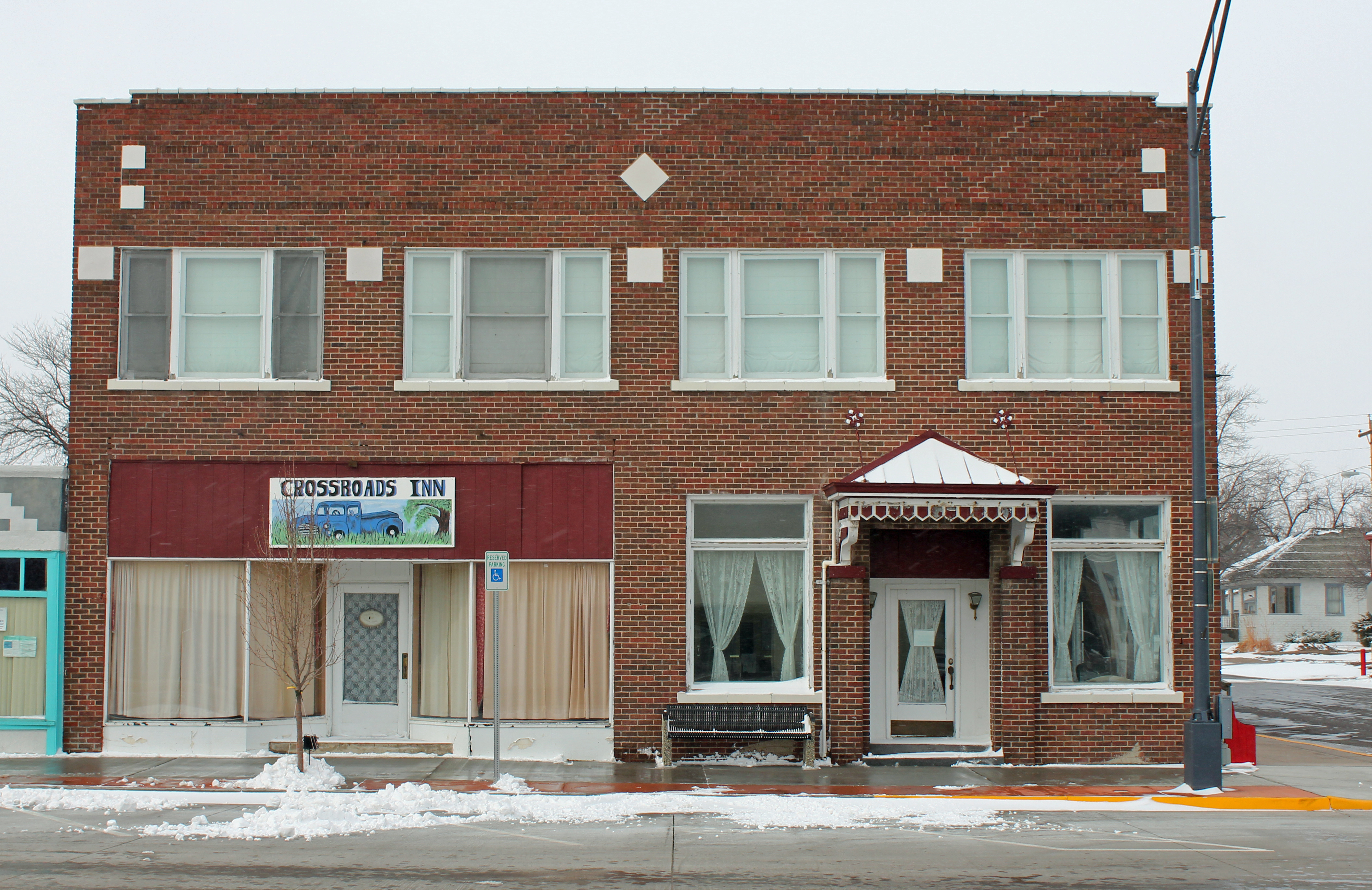 The Shirley Hotel, located at 101 South Colorado Avenue in Haxtun, Colorado. The property is listed on the National Register of Historic Places.